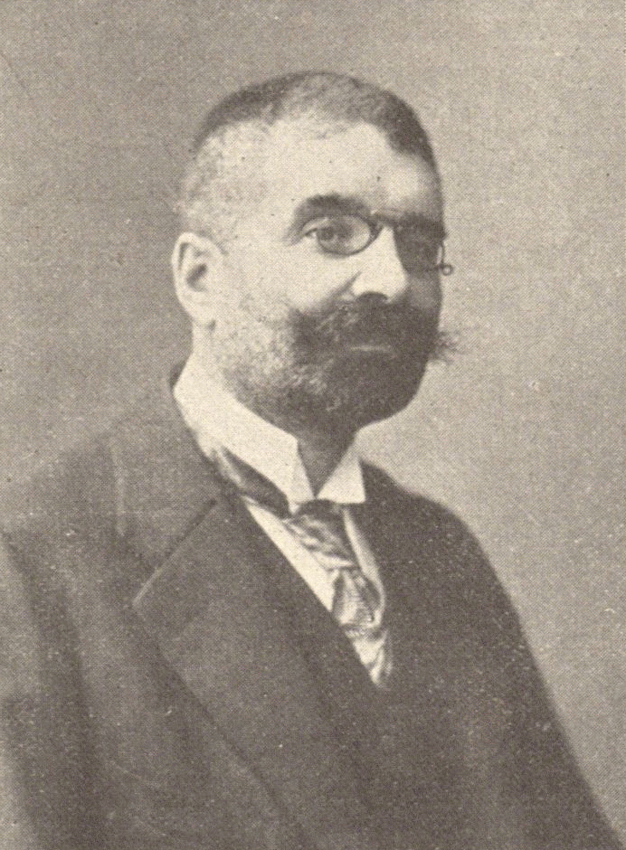 Alexander Spitzmüller (1862-1953), Austrian jurist, banker and politician